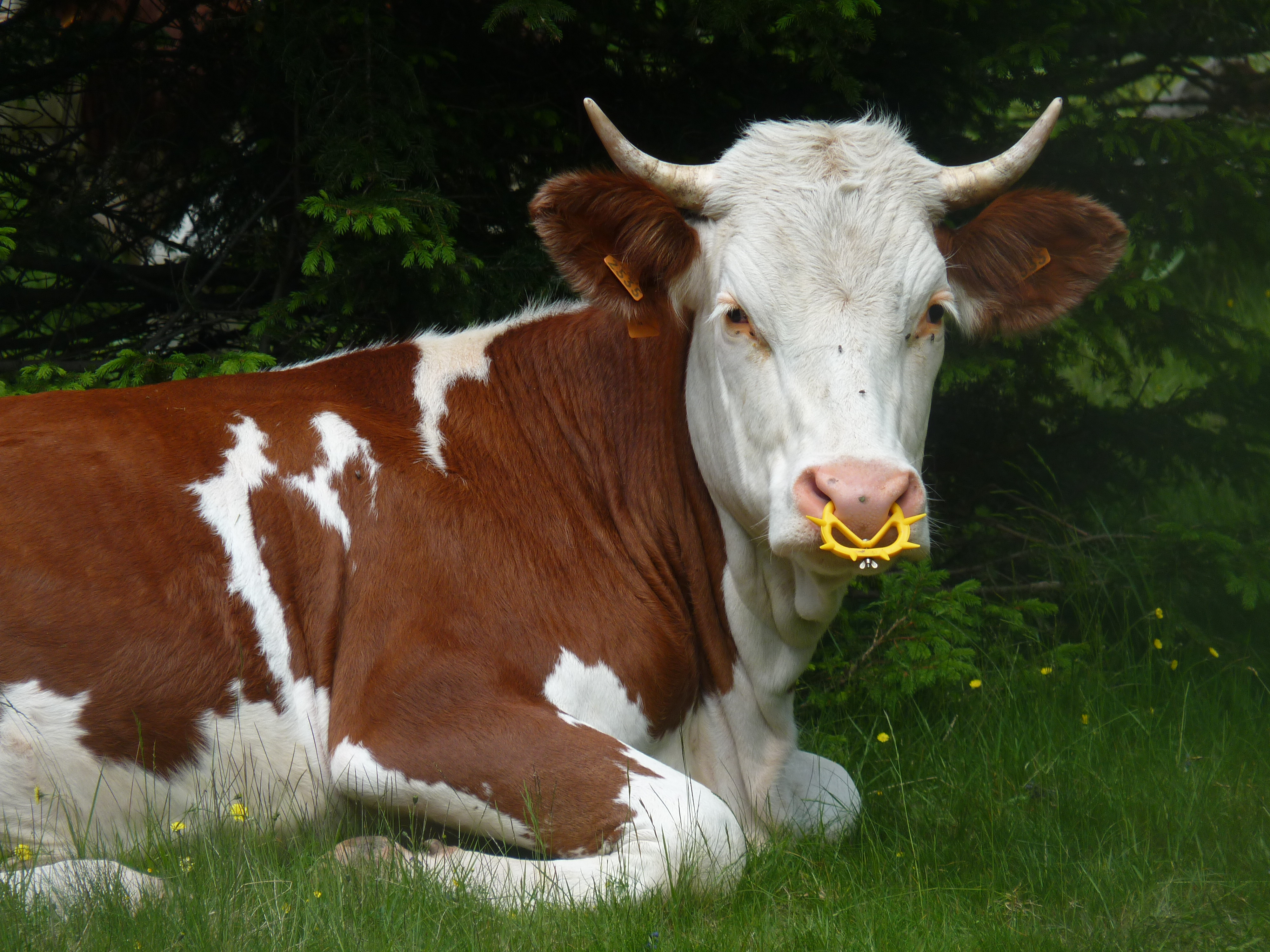 Anti-suckling ring on a cow in Vercors